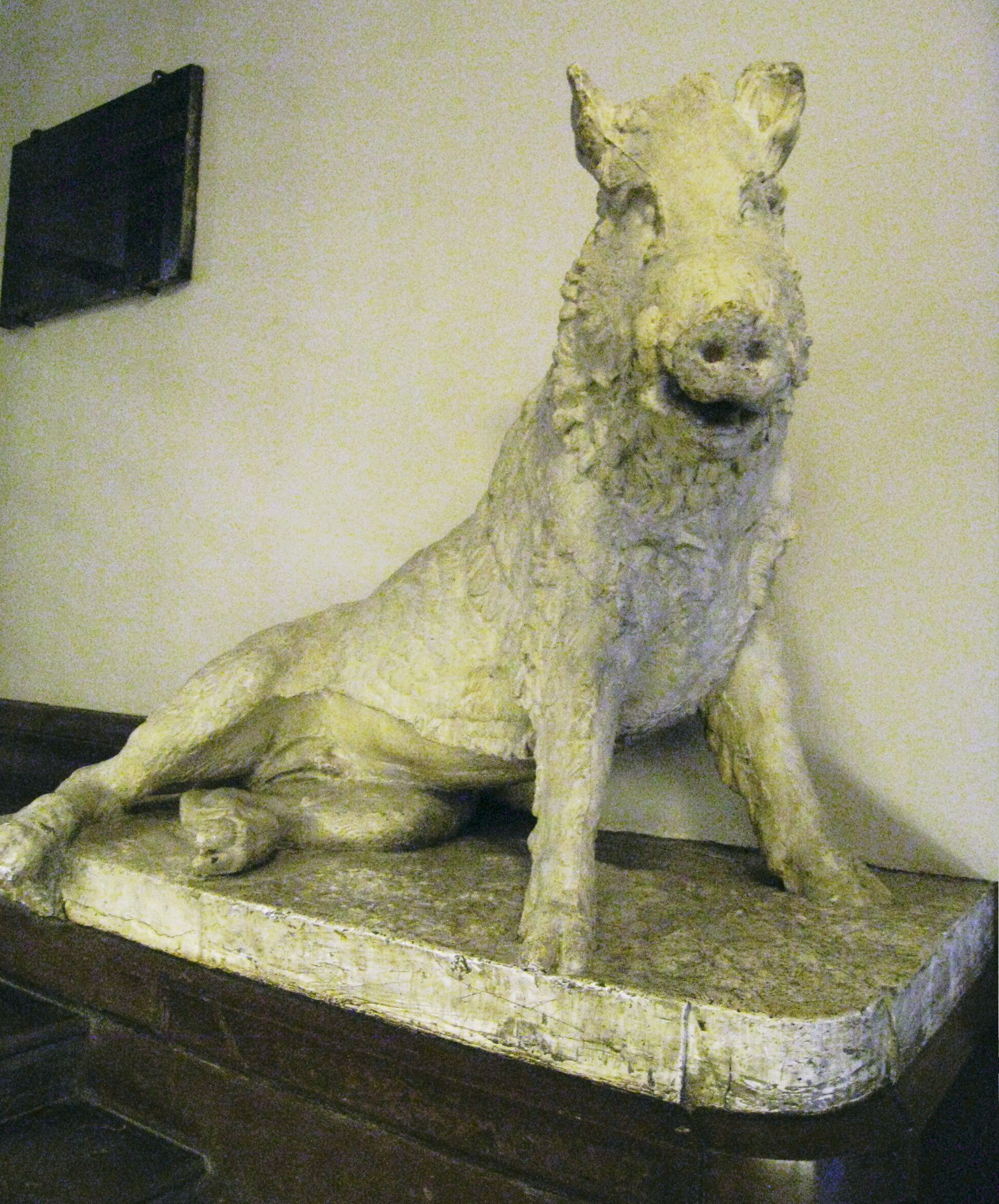 Plaster casts in the Royal Swedish Academy of Arts, Stockholm, Sweden, at the entrance at Fredsgatan stands the wild boar. The two sculptures, "The Lion and the Wild Boar", are part of a larger collection of ancient sculptures, managed by the Academy of Fine Arts since its creation in 1735. The old lion is believed to be dated to the first century after Christ. The wild boar was found during an excavation in Rome along with other sculptures, which formed a hunting scene.